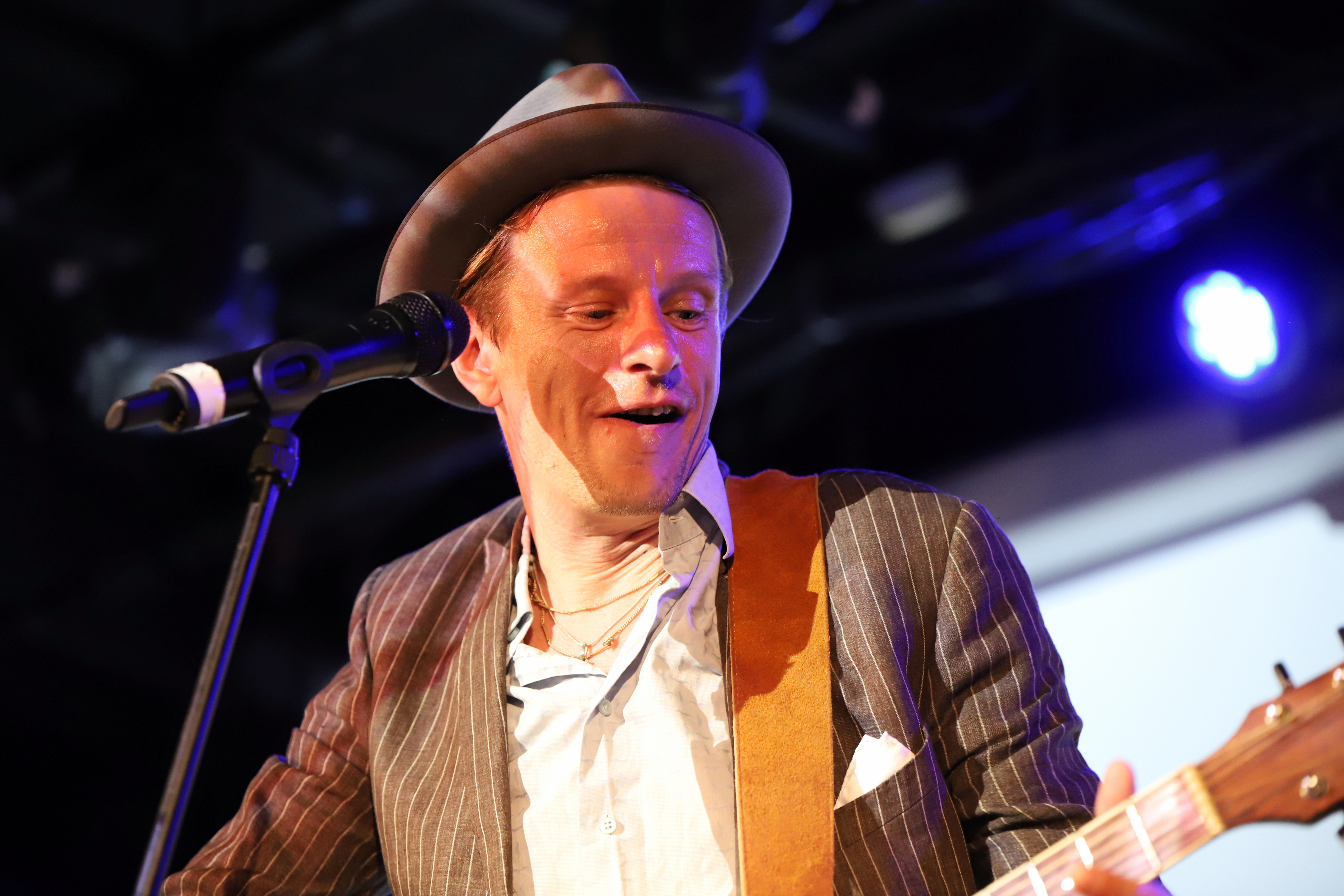 German actor Alexander Scheer presenting the movie "Gundermann" during the film festival "Cine Alemán"